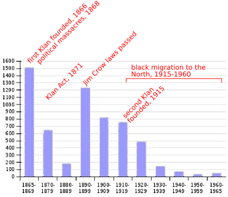 Graph of lynchings in the United States over time. Data compiled from retrieved June 26, 2005